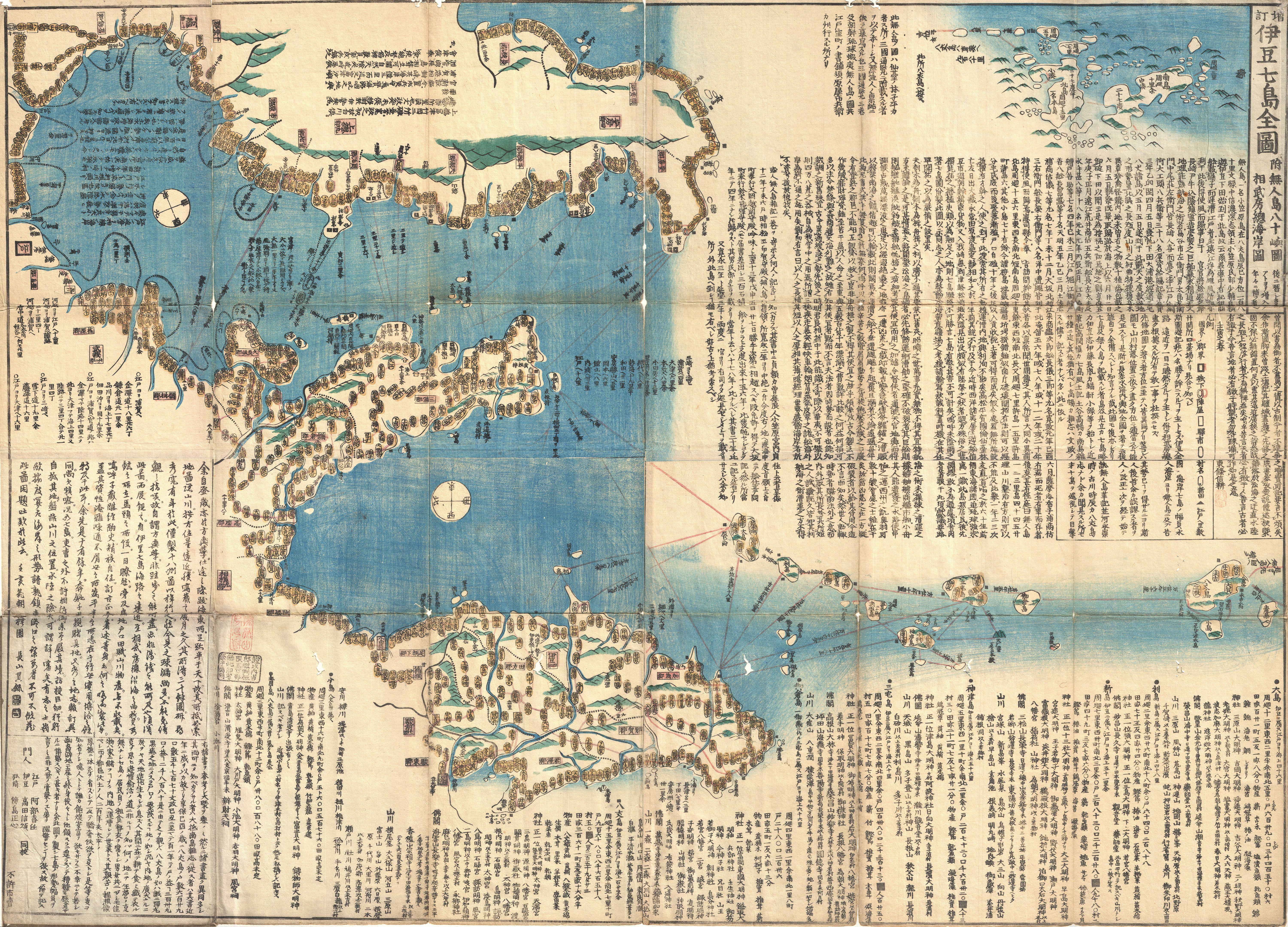 An extraordinary find, this is a c. 1847 Tokugawa Period Japanese woodblock nautical chart of the Izu Islands (伊豆諸島 Izu-shoto). Oriented to the East, this map covers from Chiba, Kanagawa, and Sagami Bay southwards as far as Miyake and Mikurajima Islands. Traditionally referred to as the Izu Seven (伊豆七島 Izu Shichito?), the Izu Islands are officially part of modern day Tokyo. Though many are uninhabited nature preserves, some of the Ize Islands host large town and villages. This map notes the locations of various shrines, towns, rivers, temples, and identifies local production specialties. With minimal inland detail this map can best be interpreted as a traditional Japanese nautical chart. Notes nautical routes and many offshore features including dangerous reefs and shoals. Though undated the latest information on this map dates to 1847 and the whole is stylistically consistent with our advertised date of c. 1847.